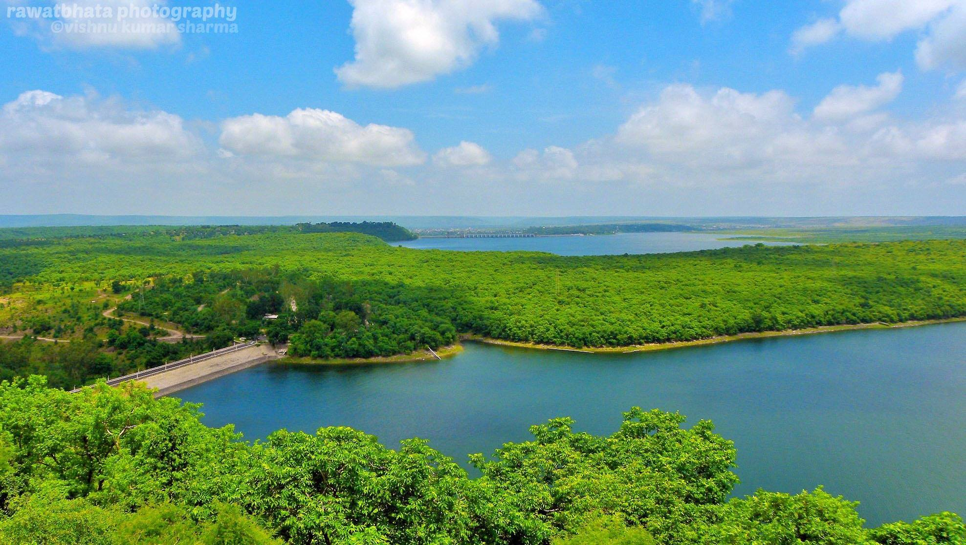 Green